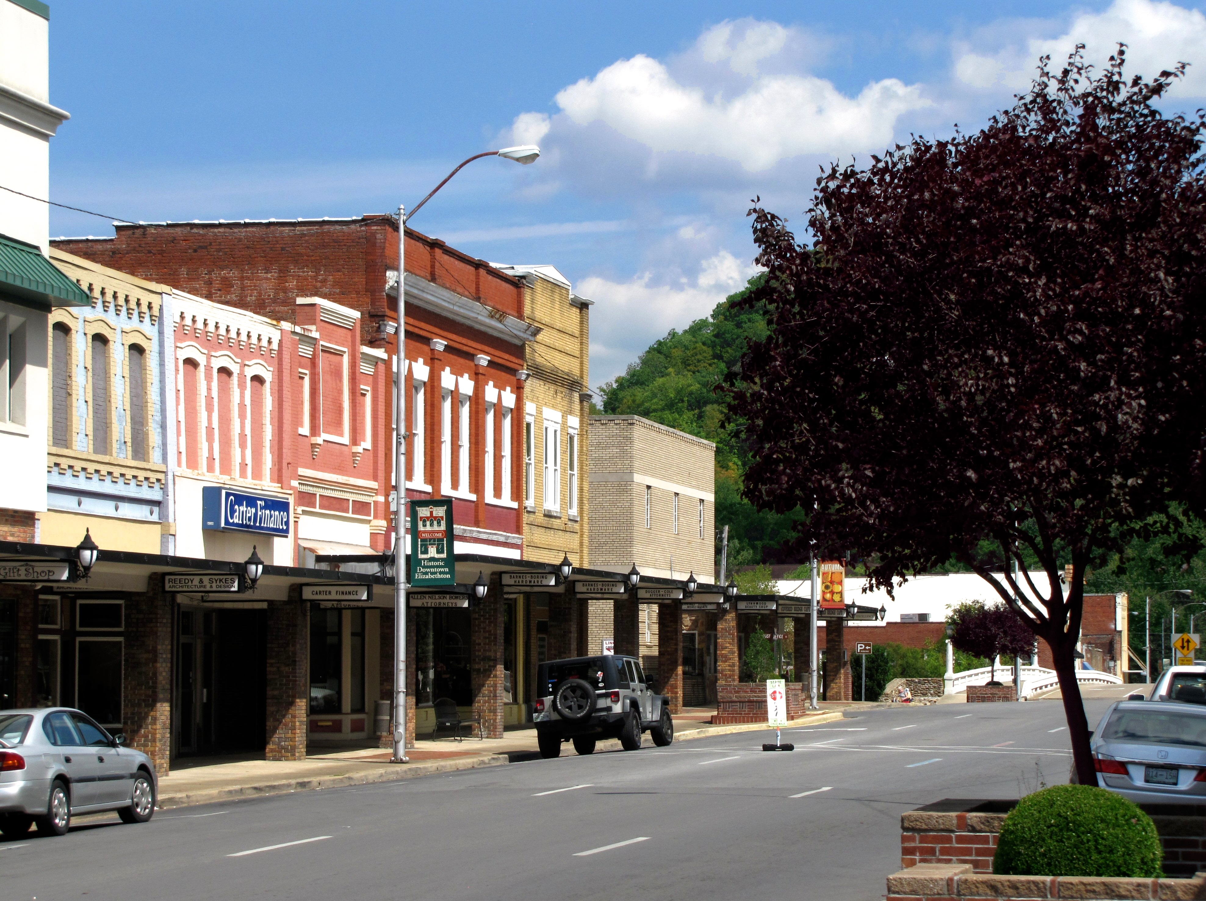 Buildings along Elk Avenue in Elizabethton, Tennessee, United States.